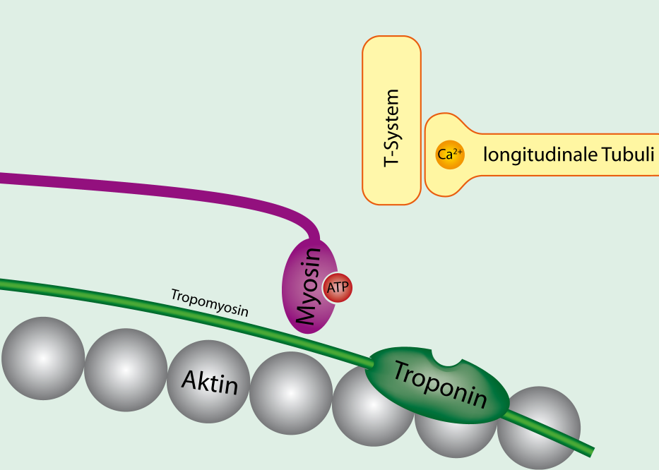 This is a recropped image that was initially created by Hank van Helvete